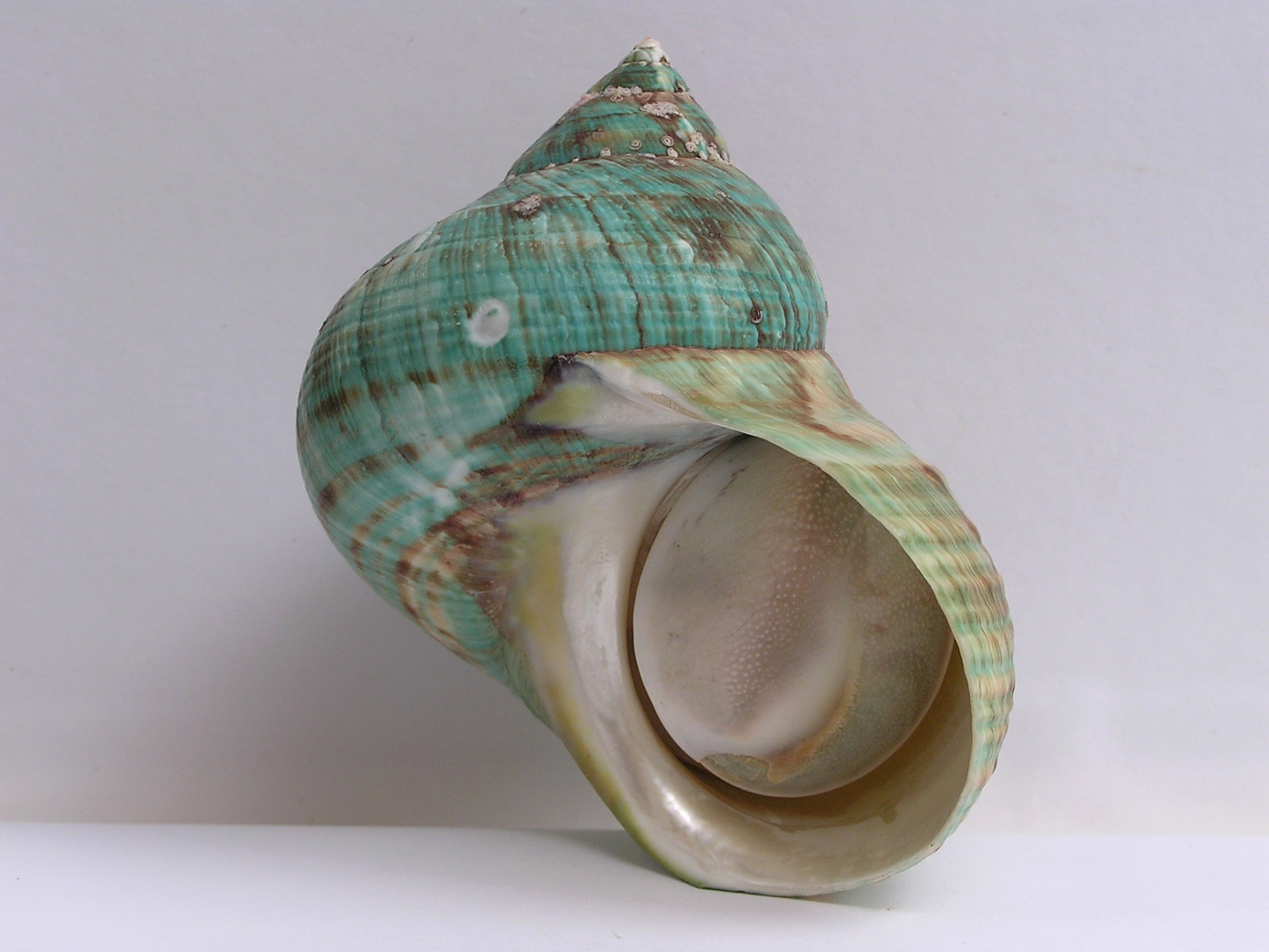 Turbo imperialis Gmelin, 1790 , a sea snail from the family Turbinidae;Madagascar